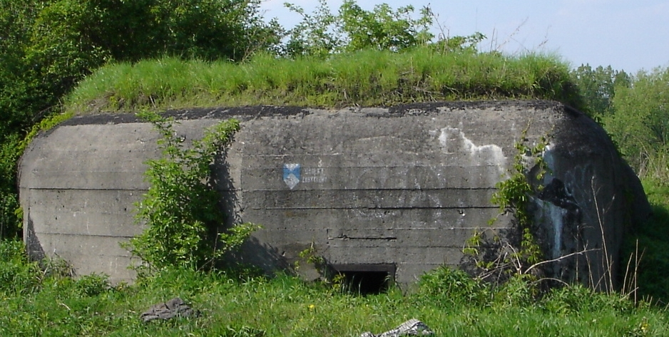 Bunker located in Bytom Łagiewniki (Krzyżowa Str.)